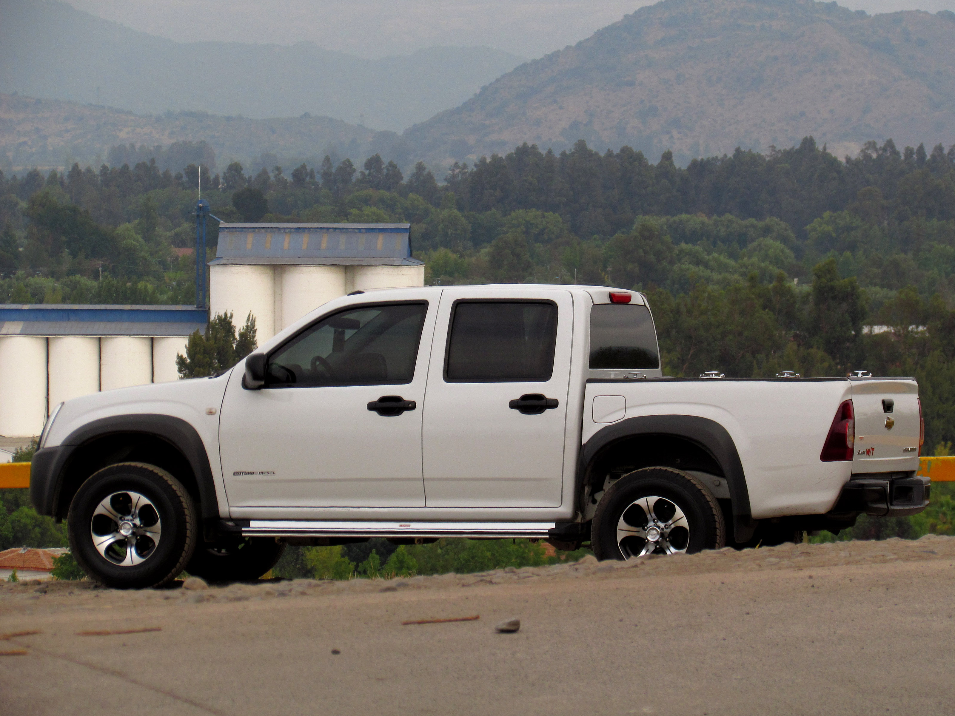 Chevrolet Dmax 3.0 TD Work Truck 2011